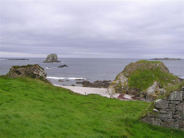 An tAigéan Atlantach (Atlantic Ocean) Looking north from Malin Well